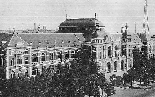 Supreme Court of Judicature of Japanese Empire